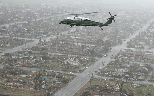 Marine One, carrying President George W. Bush, flies over the devastated community of Greensburg, Kansas Wednesday, May 9, 2007. At least 11 people died and more than 90 percent of the homes were destroyed by a tornado that struck the area on the previous Friday night. (May 2007 Tornado Outbreak)